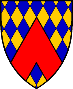 one of coats of arms of Gorges family